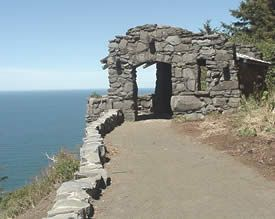 West Shelter observation point at Cape Perpetua, Oregon, United States. The Cape Perpetua Shelter and Parapet are listed on the US National Register of Historic Places (NRHP).